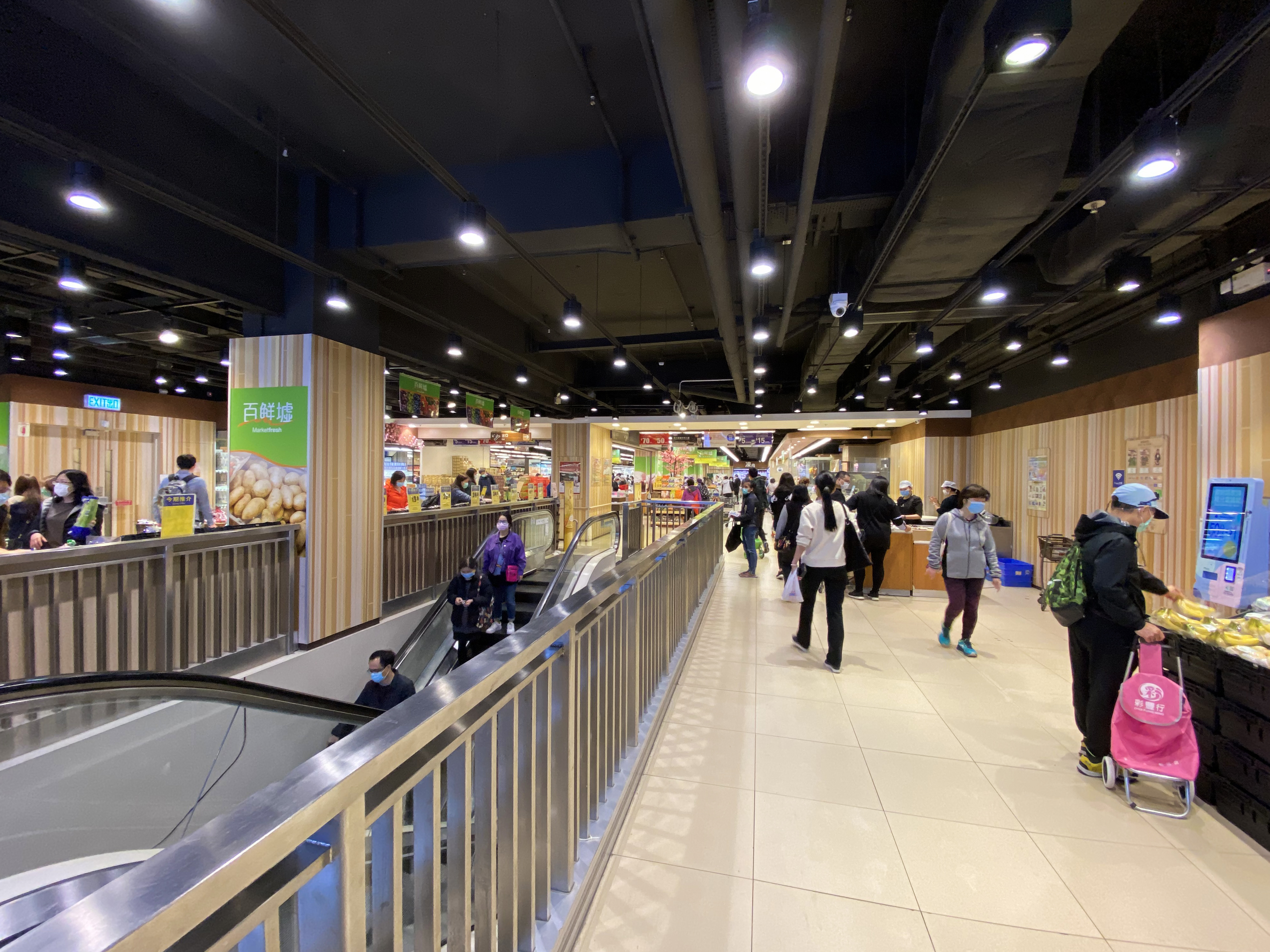 TKO Gateway Level 2 East ParkNshop